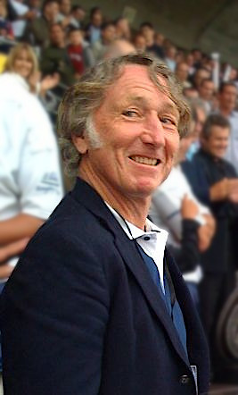 Mr JPR Williams at the France vs British Lions Classic match in Mont de Marsan